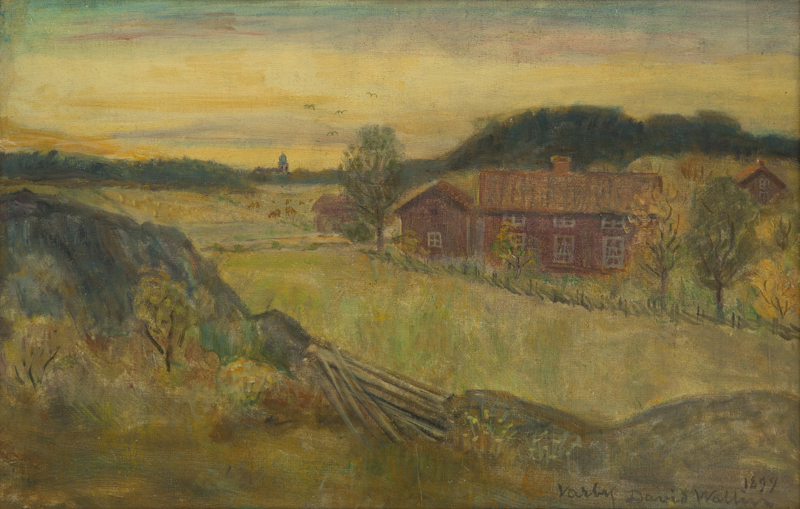 Family estate, Varby farmyard, Vikbolandet, Östergötland County, Sweden. In the background you can see Östra Husby church in Östra Husby locality situated in Norrköping Municipality. Oil painting by David Wallin in 1899.